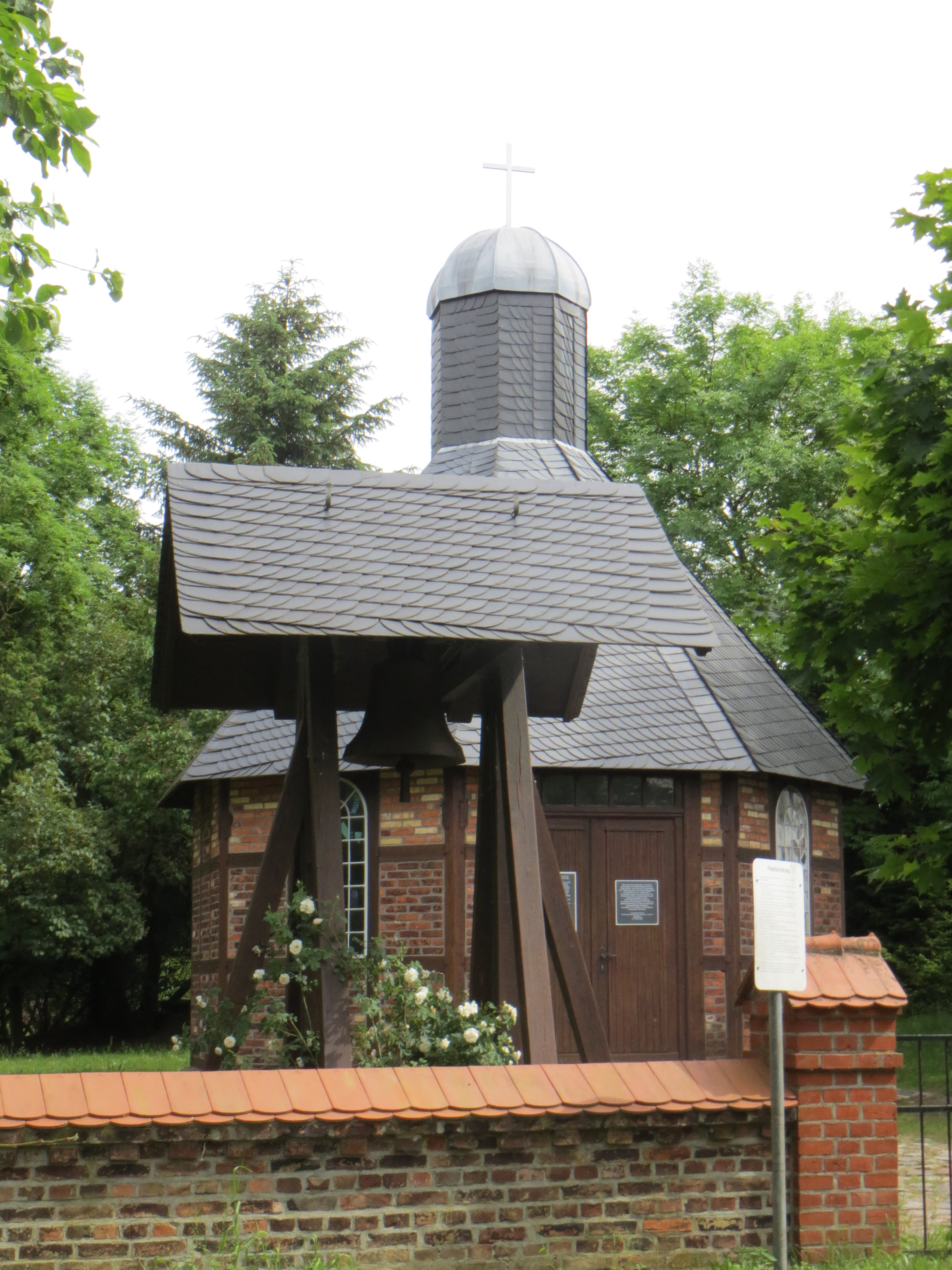 Memorial chapel (Peenemünde) with bellt tower